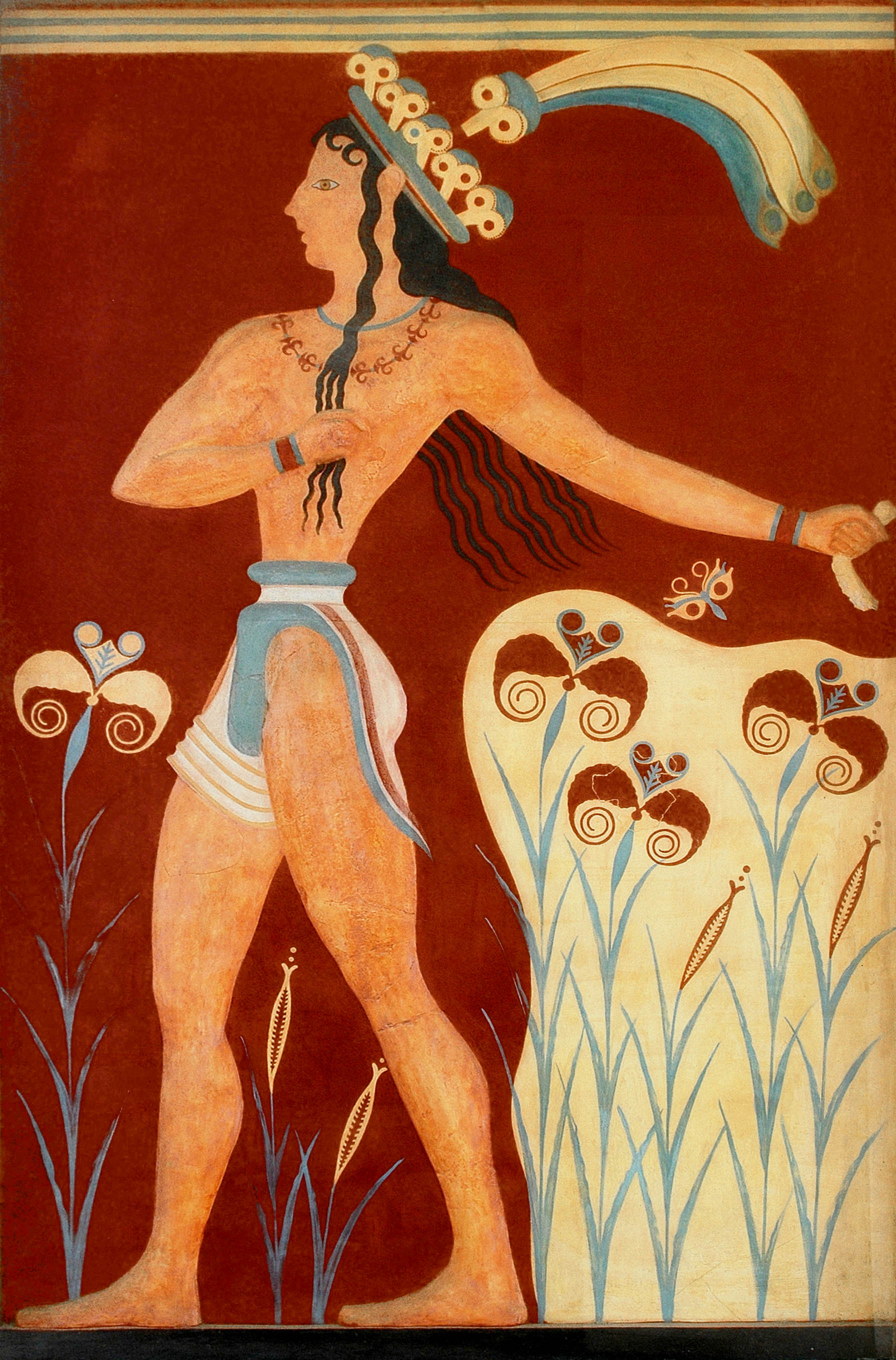 Minoan fresco commonly known as the "Prince of the Lilies"